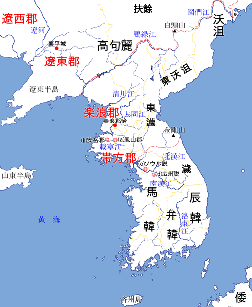 Ancient Korea and Taihougun, in AD 3C.